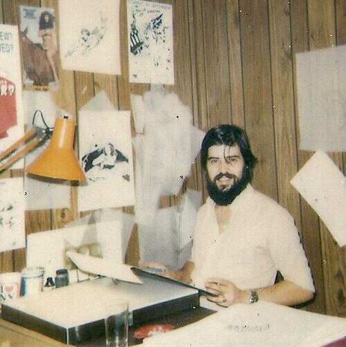 Eduardo Barreto at his studio taken by his wife Alicia Fernández circa 1987